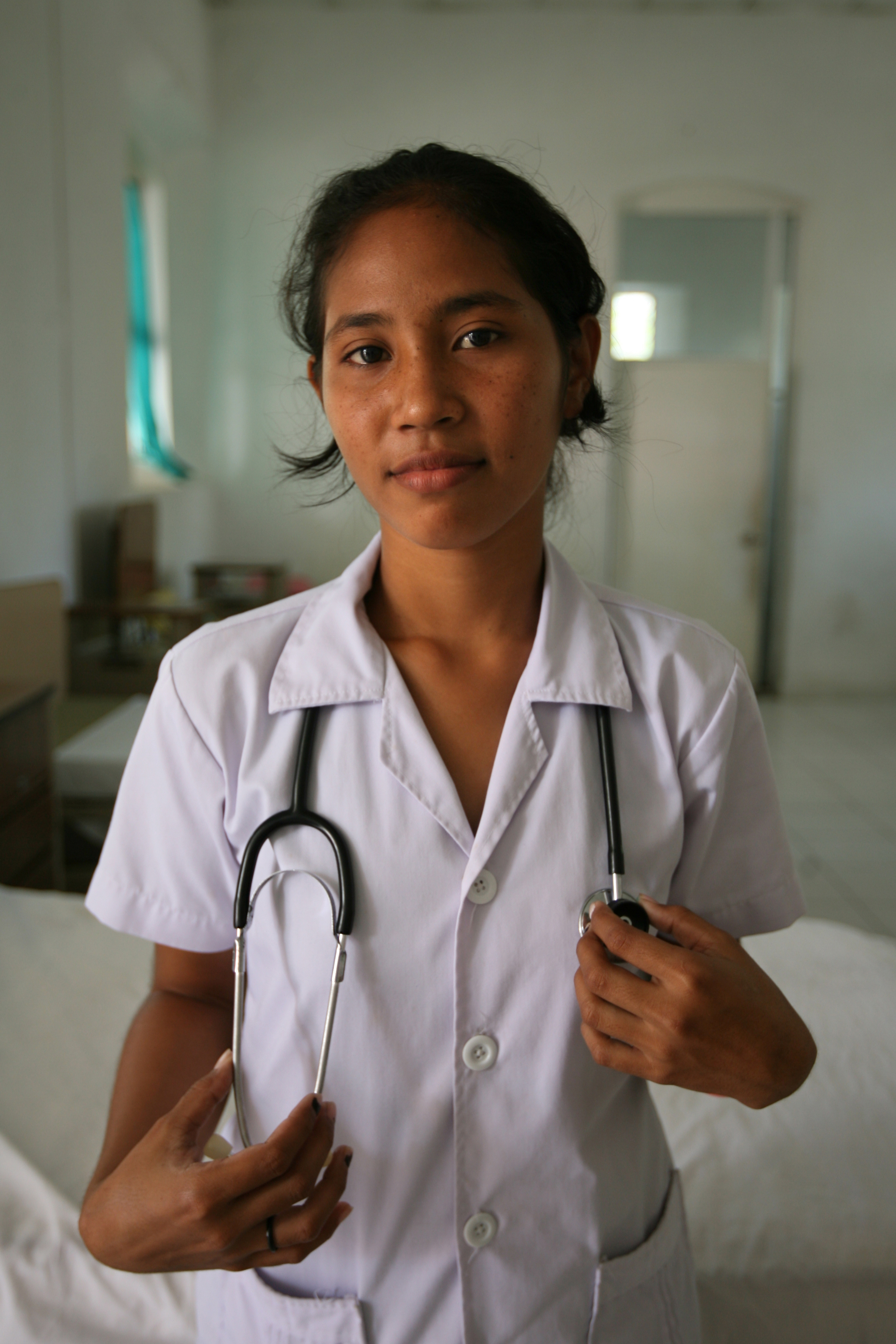 17 Year old Tince Frederica Jempaut is a trainee doctor working in Liquica Hospital, East Timor, under the guidance of a delegation of Cuban doctors. Tince lives in the village of Dato with other medical students and as part of her routine, travells into neigbouring villages to educate people on the heath benefits of good hygene with limited water resources. Photograph by Dean Sewell/oculi/Agence Vu for WaterAid. Photograph taken on the 4th August 2010. To request copyright use and access to hi-res versions of this photo